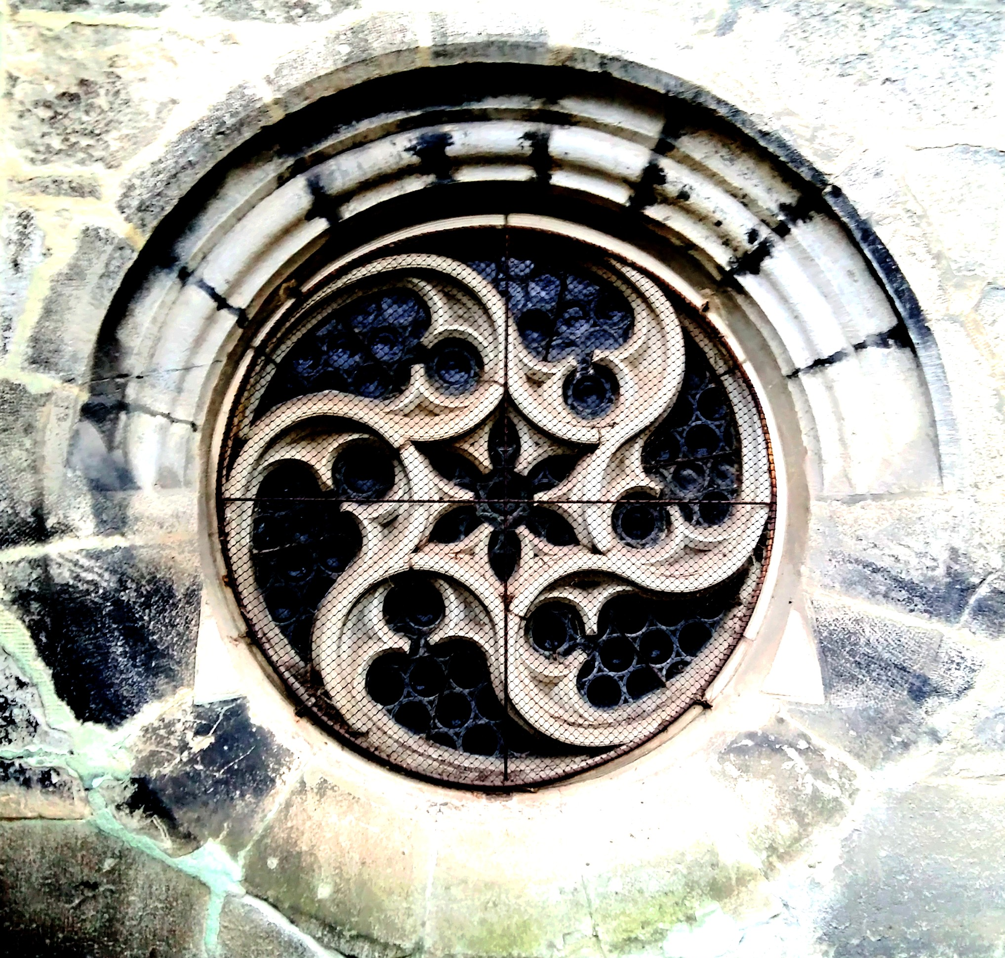 Tracery window at St. Peter and Paul church in Goerlitz